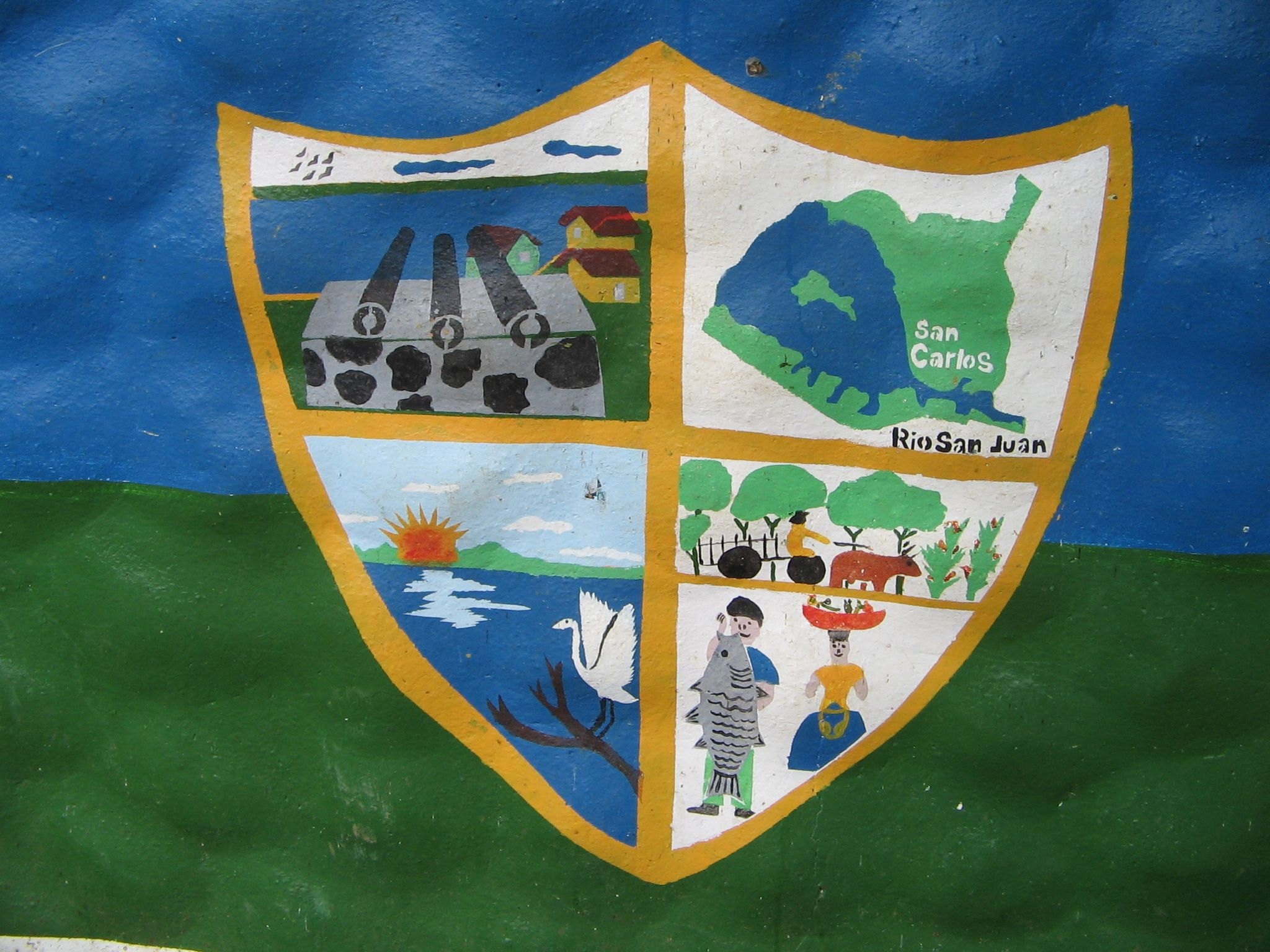 Flagge San Carlos, Nicaragua